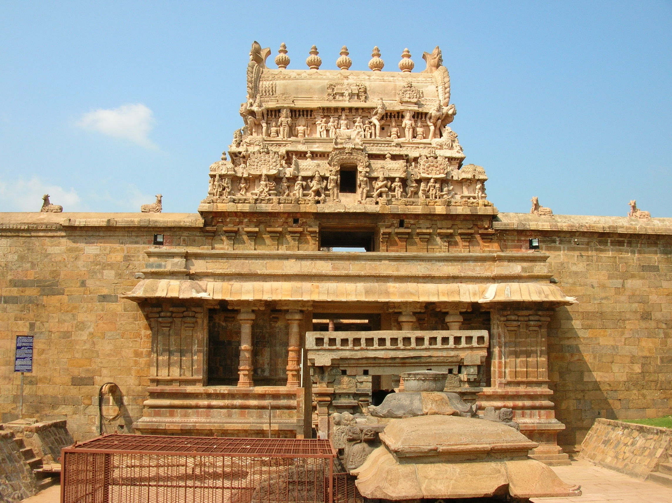 Airavatesvara Temple